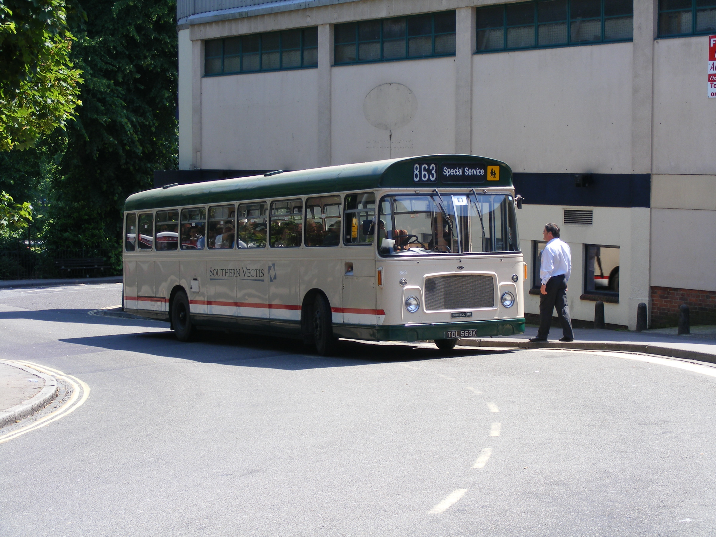 Southern Vectis 863 TDL563K, an ECW-bodied Bristol RELL6G seen in Southampton operating on the free bus service to the Netley Rally.